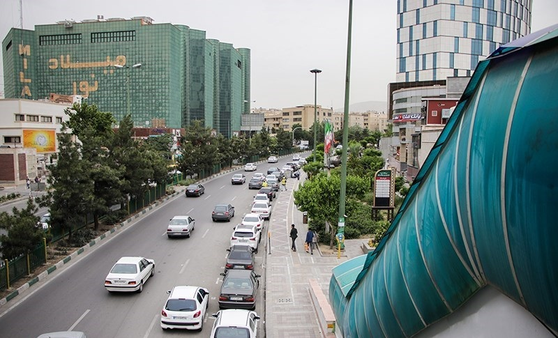 Shahrak-e Gharb